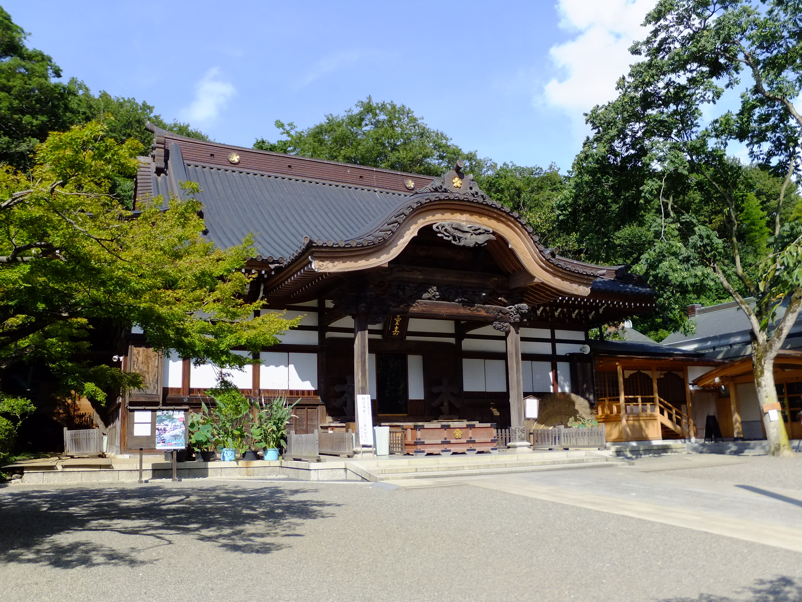 Jindai-ji is a Tiantai school temple in Chofu City, Tokyo.